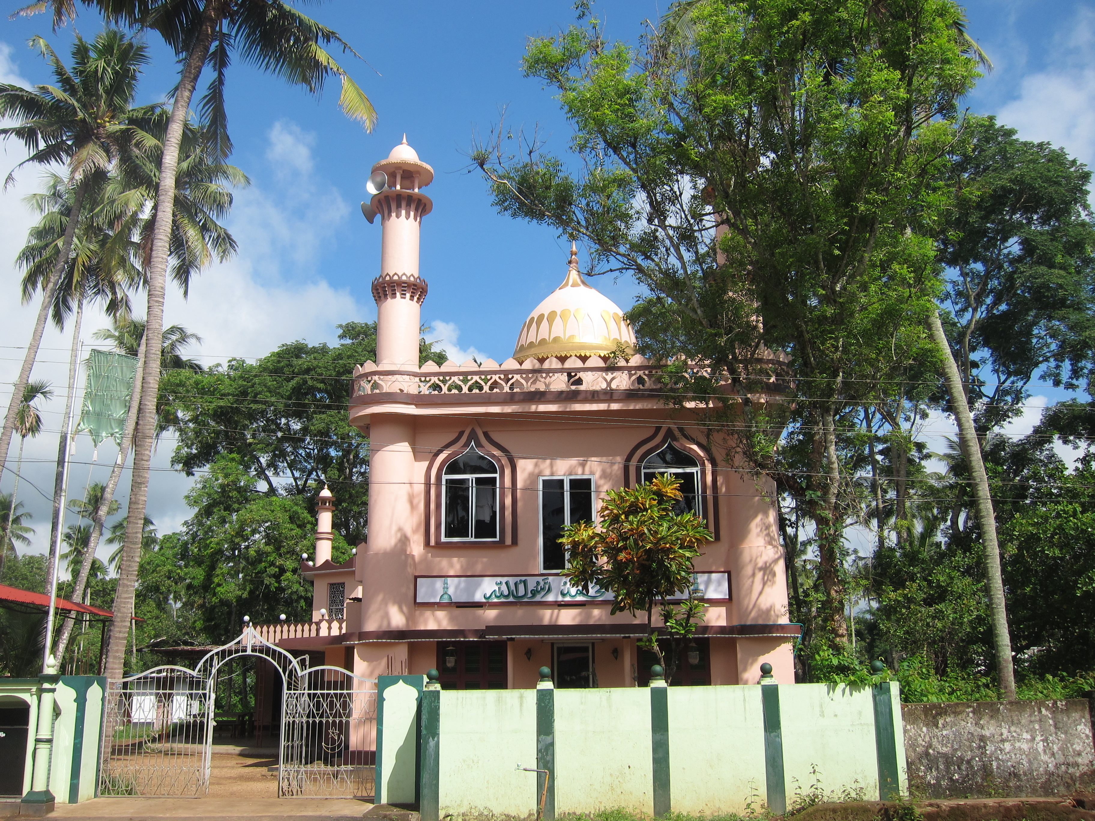 Kombidinjamakkal Masjid 10 k.m away from Chalakudy, Thrissur